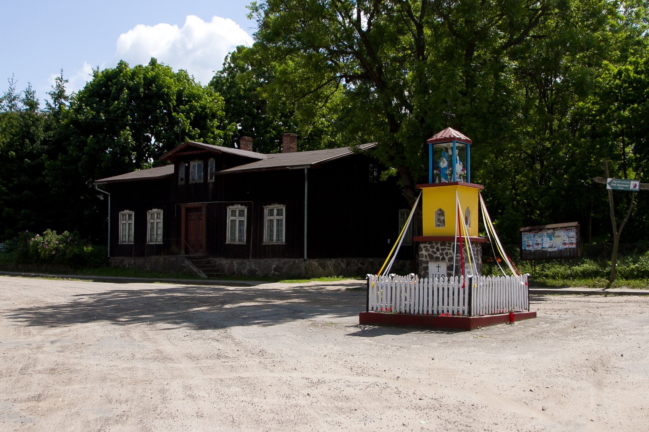 Małe Leźno center of the village, the chapel at the crossroads and a wooden house